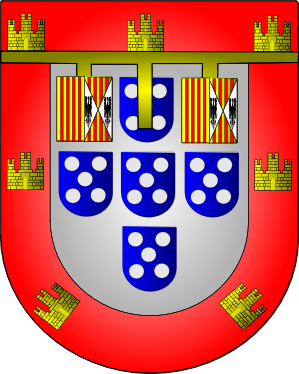 Personal Arms of the Dukes of Braganza from 1498 to 1640. Made by JSobral